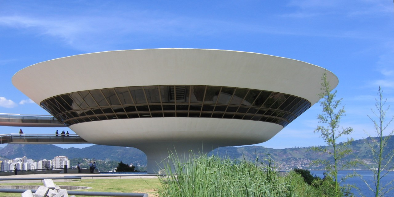 Niterói: outside view of the Museu de Arte Contemporânea.